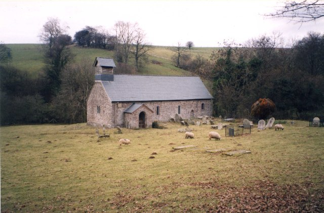 St Ellyw's Church Llanelieu. The churchyard of this remote upland church is a field grazed by sheep. The church was built in the 13C.